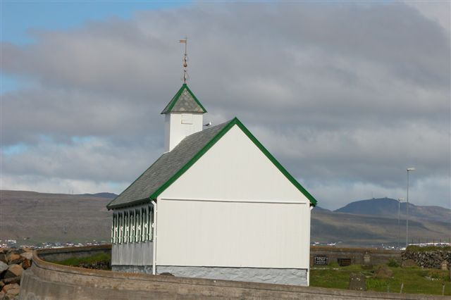 Churchs of Nólsoy